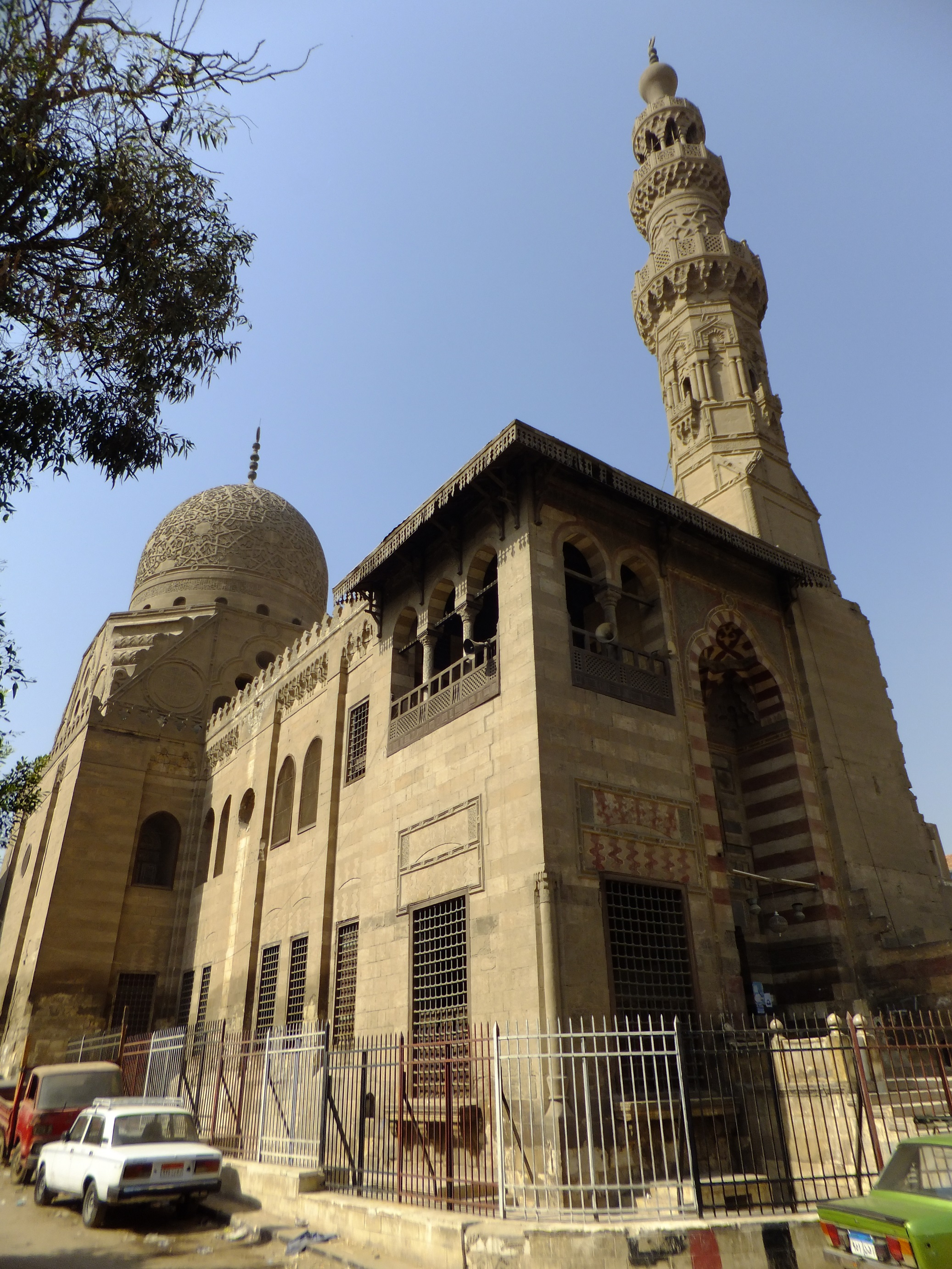 View of Sultan Qaytbay's mosque and mausoleum complex in the Northern Cemetery.